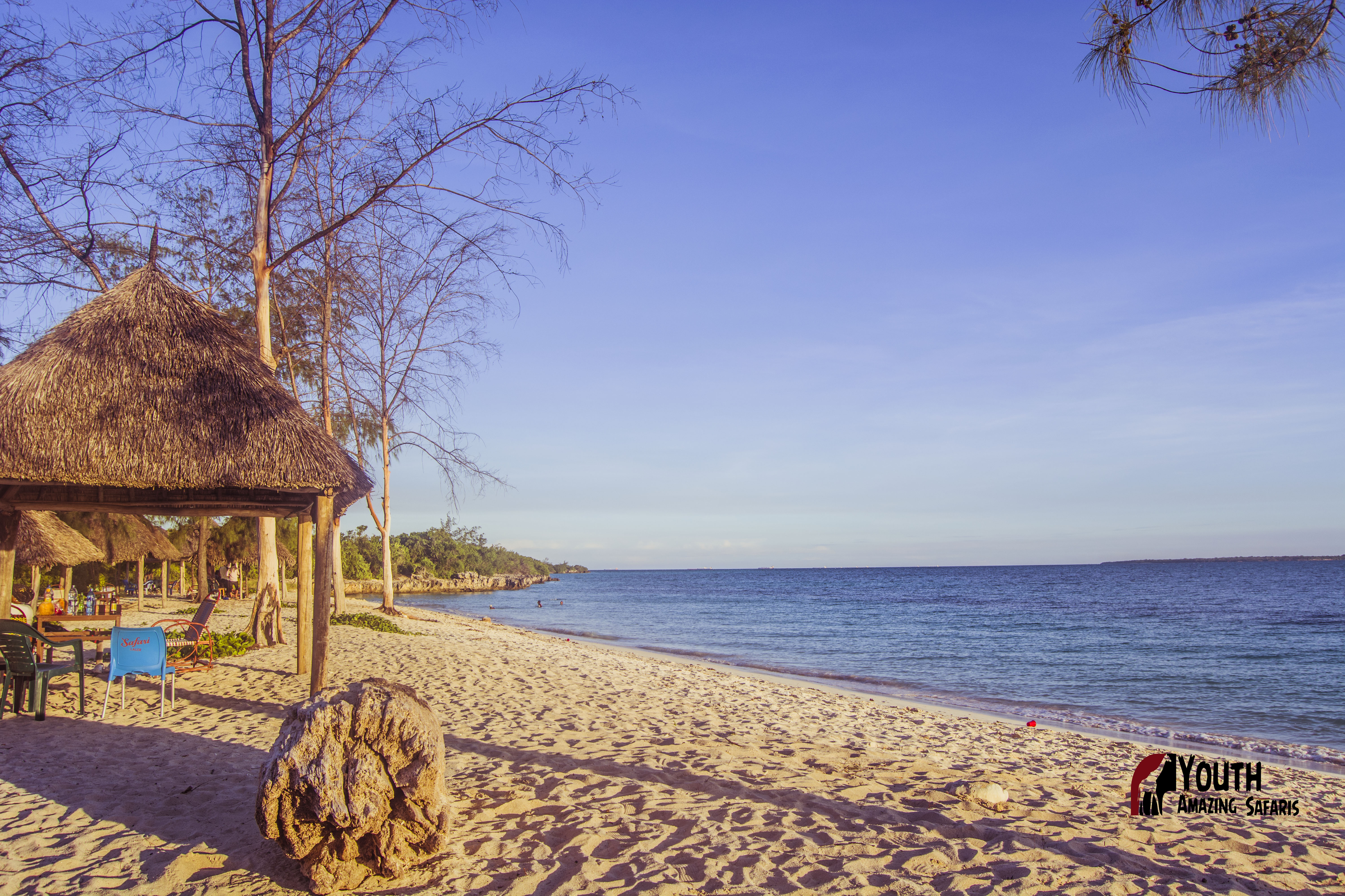 This one of Islands found in Dar es salaam,Tanzania